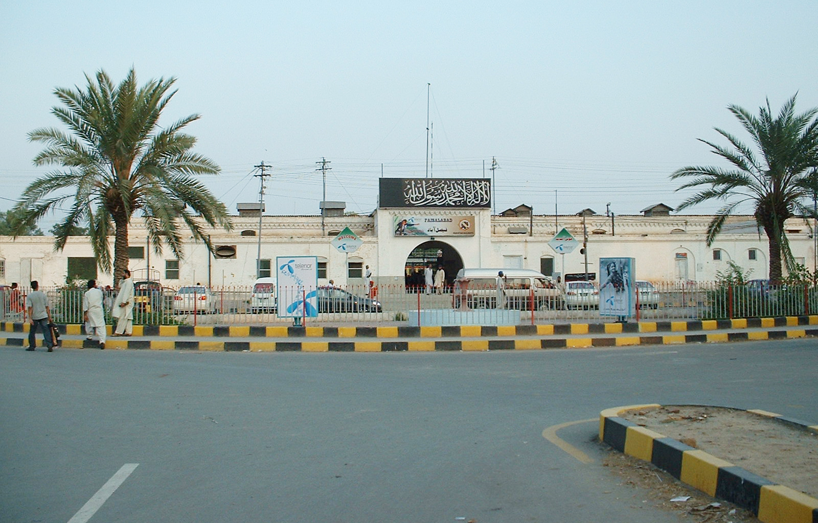 Faisalabad Railway Station